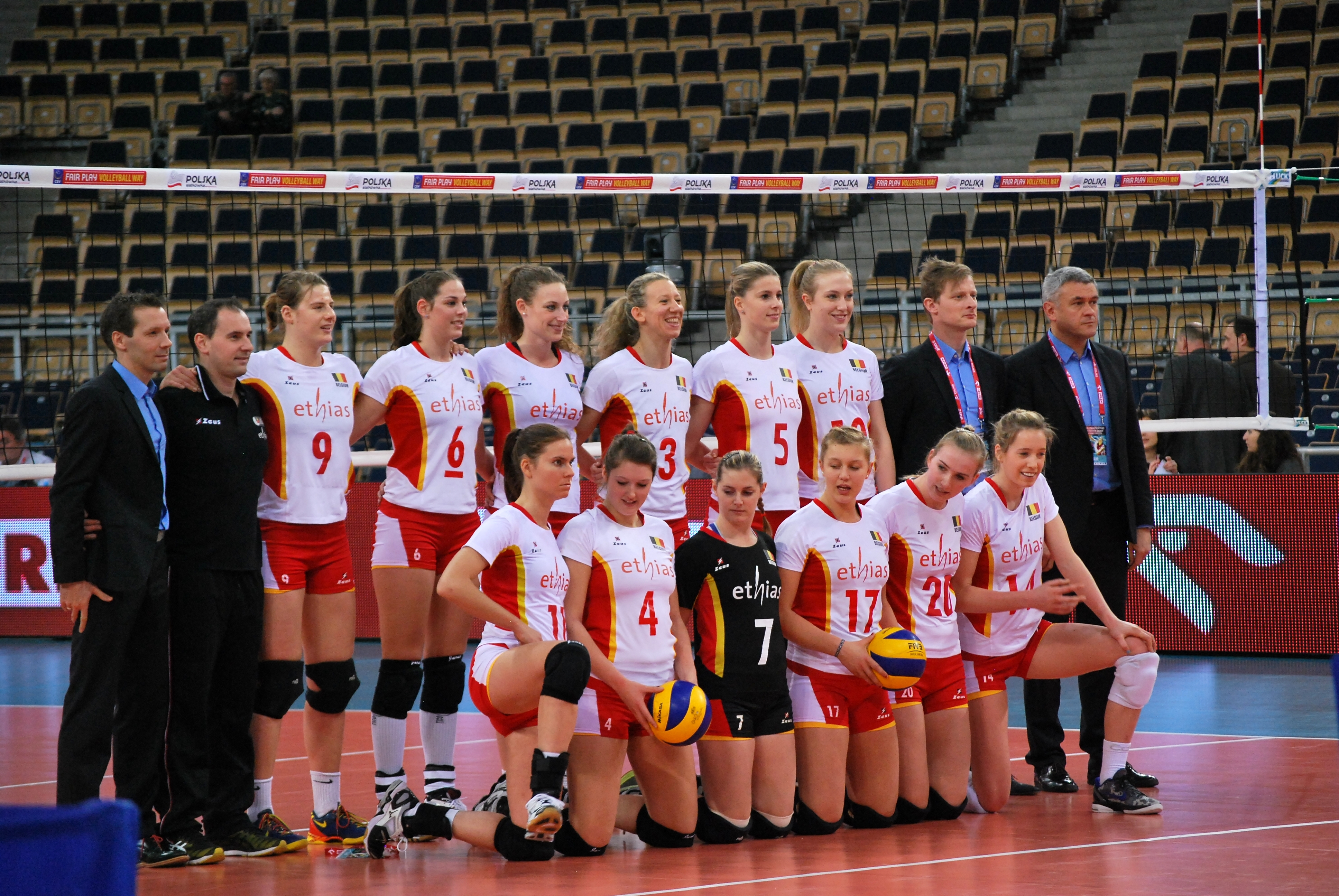 FIVB World Championship European Qualification Women Łódź January 2014. Belgium volleyball women national team